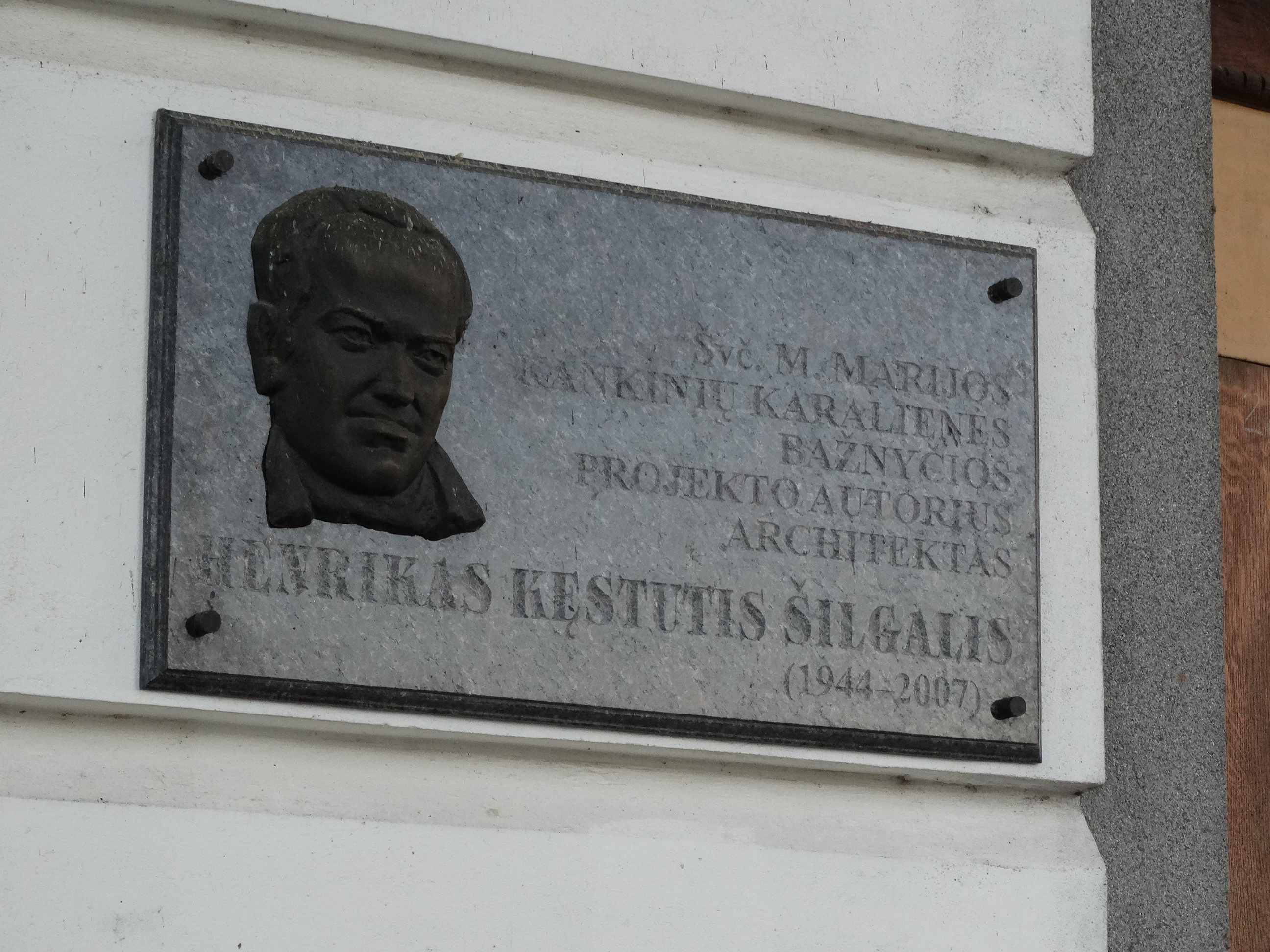 Memorial plaque to H.K.Šilgalis on Elektrėnai church, Lithuania